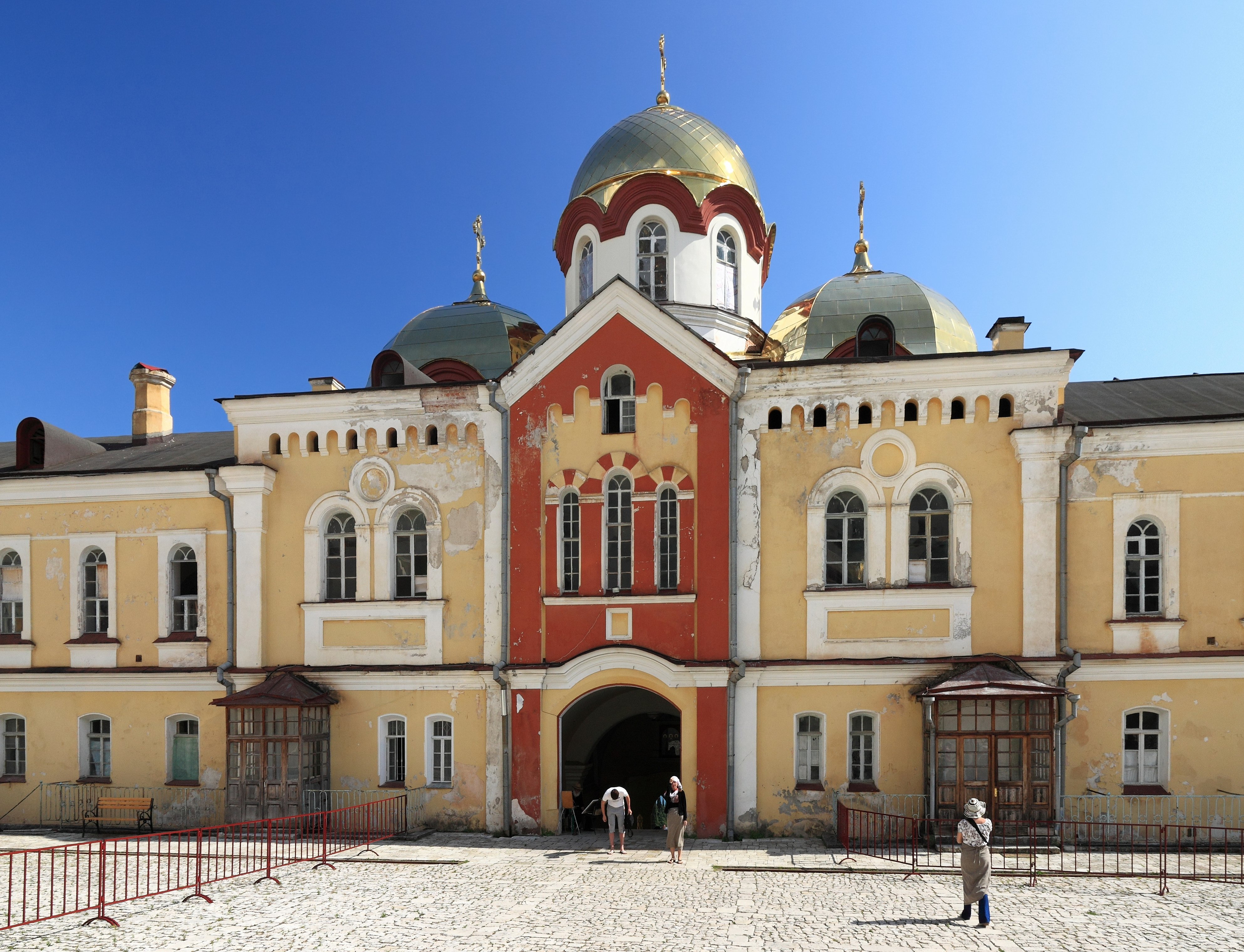 Monastery of St. Apostle Simon the Zealot. New Athos, Gudauta District, Abkhazia.